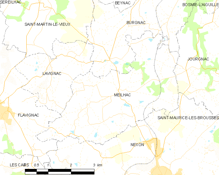 Map of French municipality Meilhac